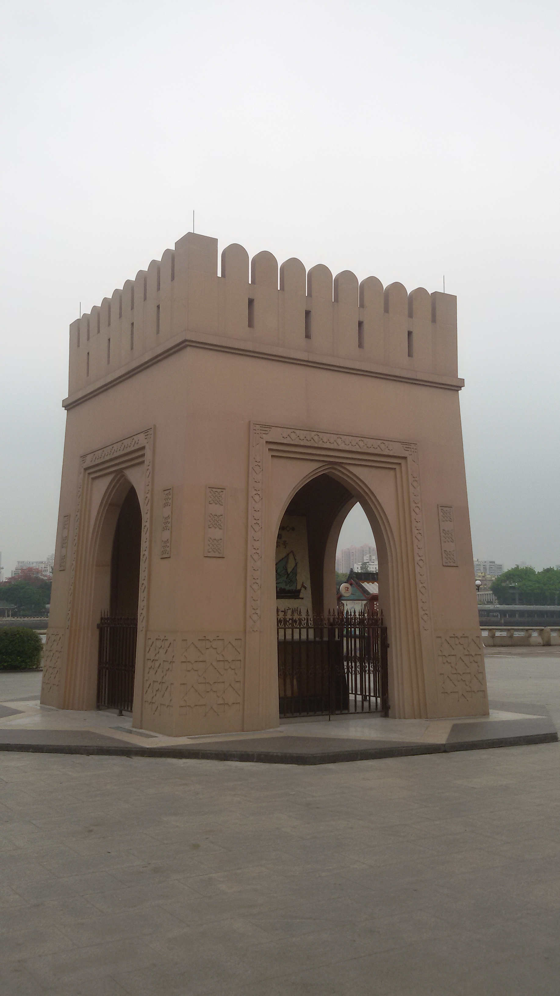 Introduction for The Commemorative Monument of Sohar Ship